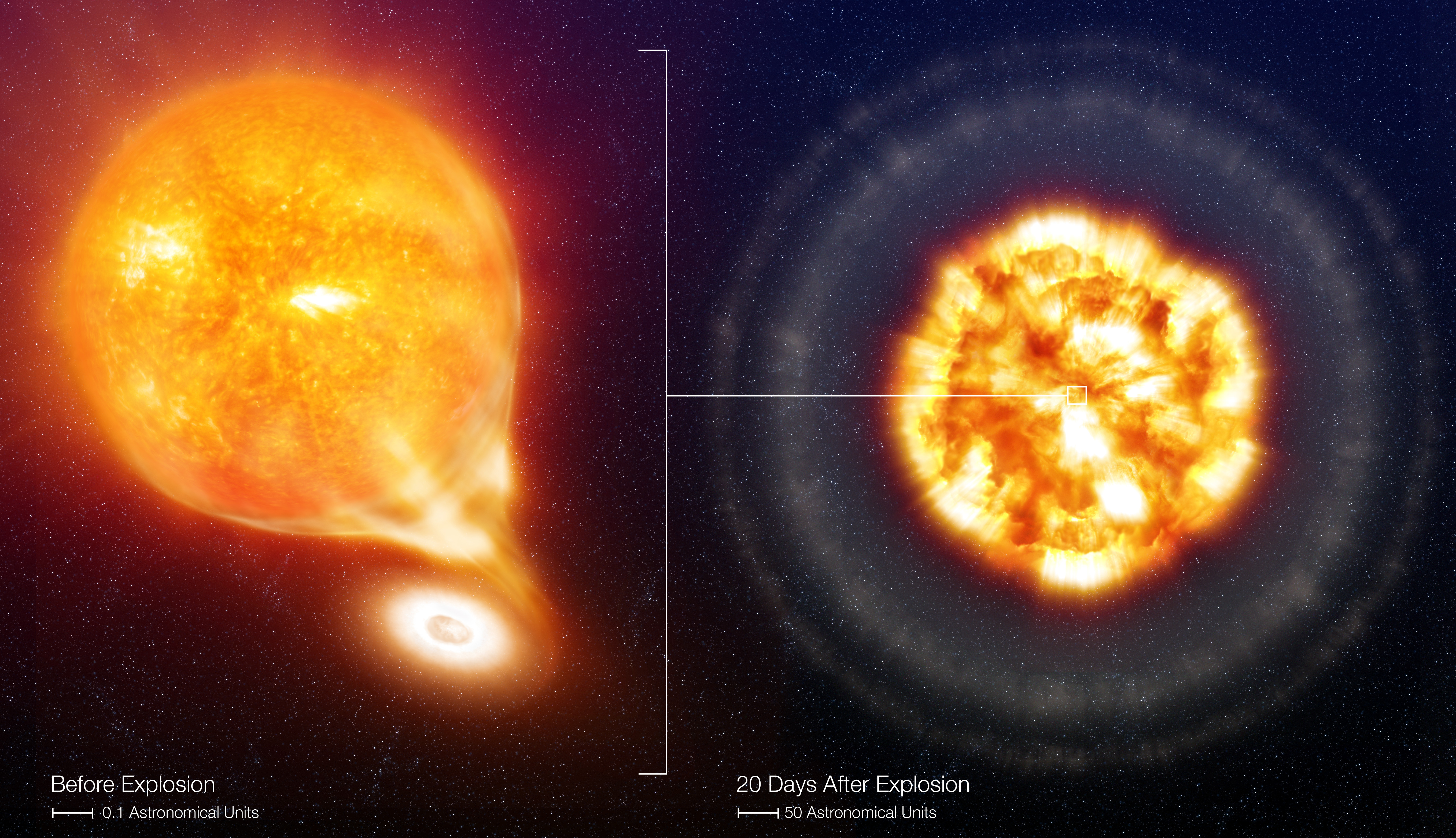 Left : artist's impression of the favoured configuration for the progenitor system of SN 2006X before the explosion. The White Dwarf (on the right) accretes material from the Red Giant star, which is losing gas in the form of stellar wind (the diffuse material surrounding the giant). Only part of the gas is accreted by the White Dwarf, through a so-called accretion disk which surrounds the compact star. The remaining gas escapes the system and eventually dissipates into the interstellar medium. The Red Giant star has a radius about 100 times larger than our Sun, while the White Dwarf is about 100 times smaller than the Sun.